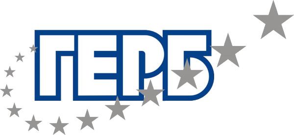 Logo of political party GERB